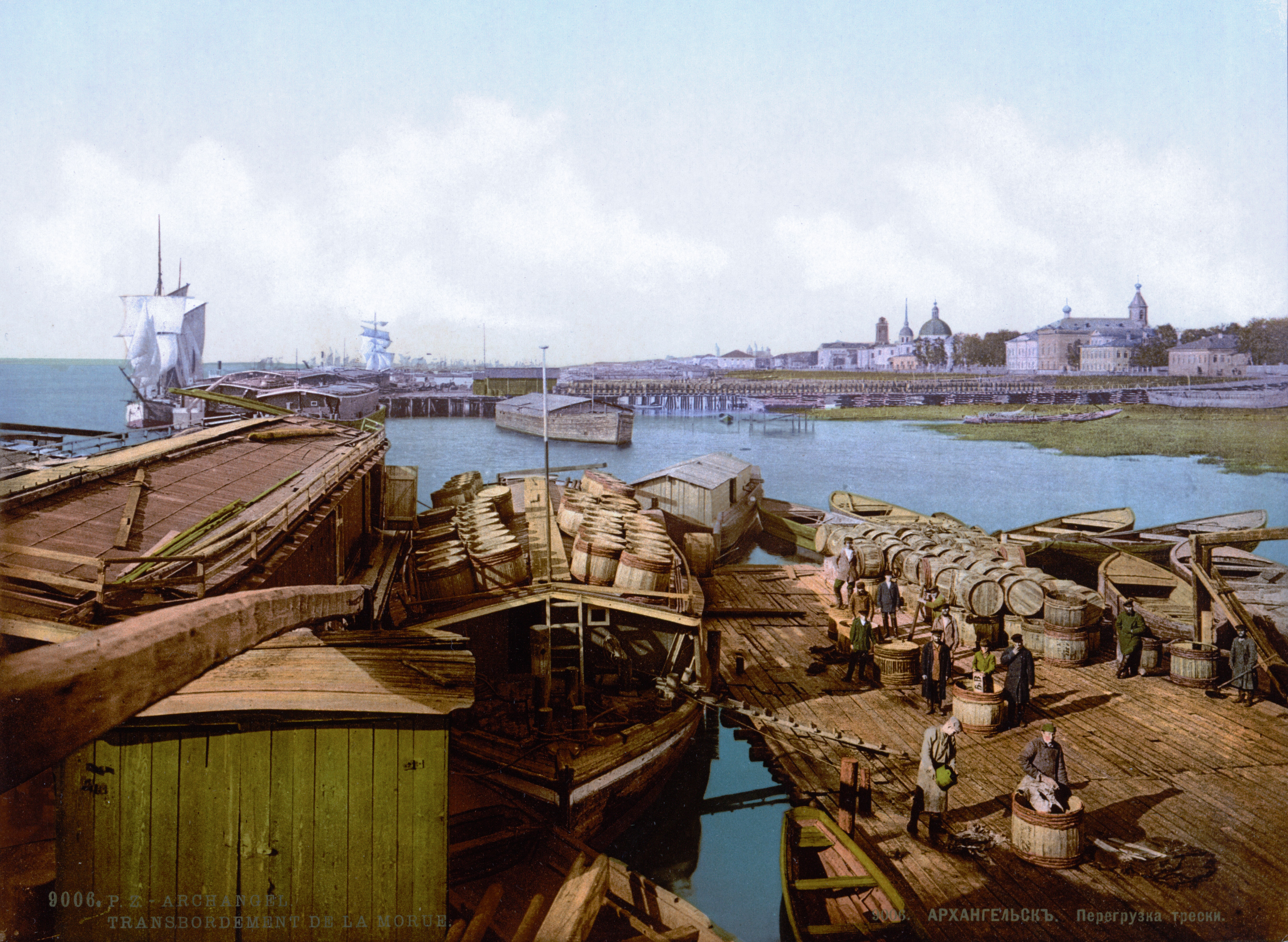 19th-century vintage postcard of Arkhangelsk commercial port.